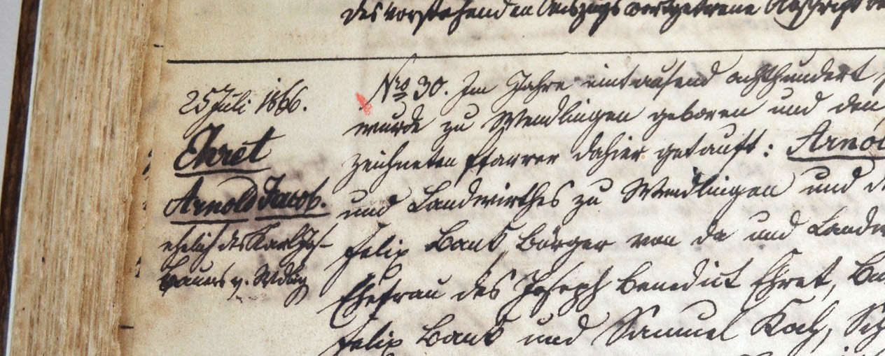 Birth register with the entry #30: "Ehret Arnold Jacob, born 25 July 1866", son of a farmer.